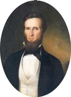 James Ferguson Dowdell, president of Auburn University from the late 1860s until 1871